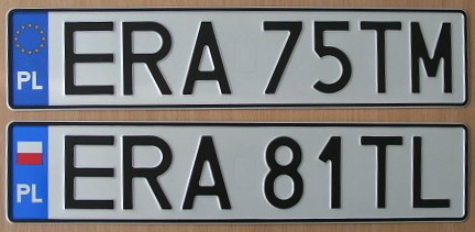 Polish license plates issued just before (Polish flag) and after (EU stars) May 2, 2006.